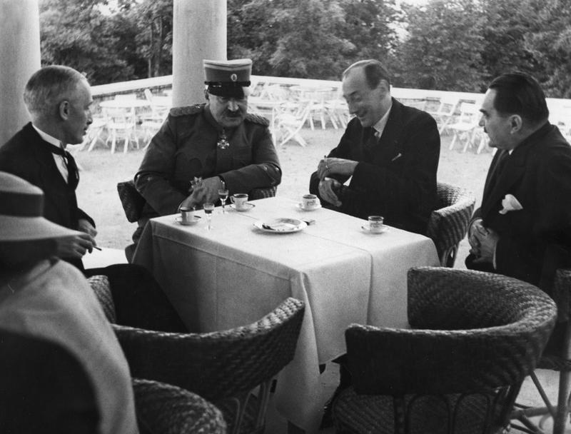 Meeting of the Polish Foreign Minister Jozef Beck with members of the Yugoslav Government. From left visible: Yugoslavia's industry minister Urbanic, minister of war General Ljubomir Marić, Joseph Beck and premier of Yugoslavia Milan Stojadinovic.